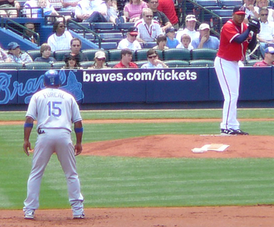 User:Chrisjnelson agreed to license this image of Rafael_Furcal.jpg under a free attribution license. Any use of this image must be attributed; this means that Photo by :en:User:Chrisjnelson|Chris Nelson should be in the picture caption. 23:47, 20 April 2008 . . Chrisjnelson . . 385×319 (161 KB)